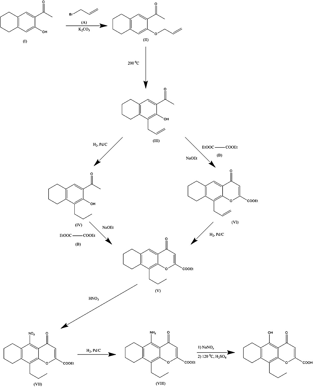 The synthesis of Proxicromil from 6-acetyl-7-hydroxy-1,2,3,4-tetrahydronaphthalene through respectively condensation, isomerization, hydrogenation, cyclization, nitration, reduction and diazotation. The schematic representation is created using Chemdraw Professional.